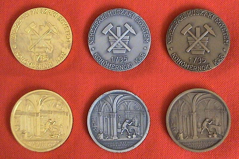 Study medallions (gold, silver, bronze), University of Miskolc, Faculty of Materials Science and Engineering